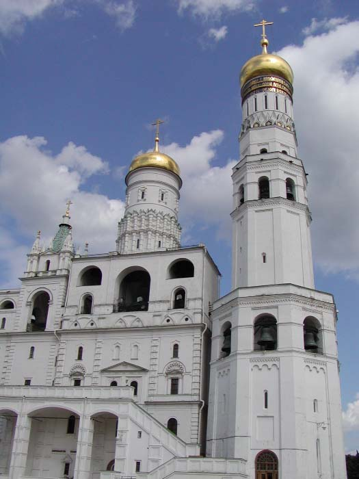 Photo of Ivan Bell Tower in Moscow Kremlin